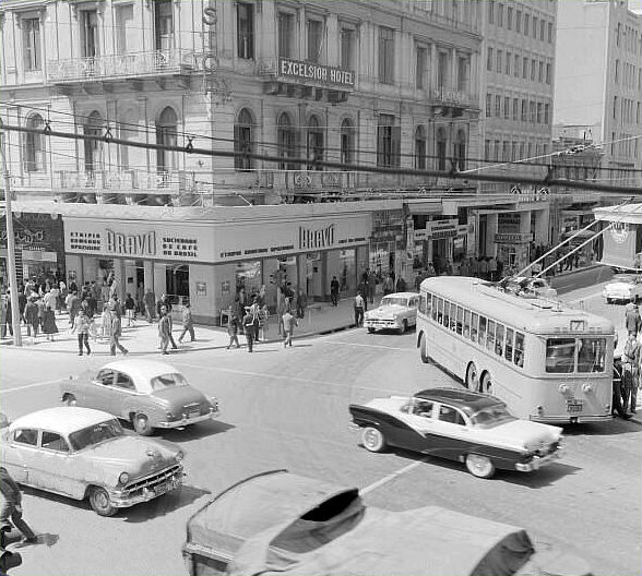 The building of Excelsior hotel, now National Bank of Greece. Corner of Panepistimiou av. with Omonia square. (The Hellenic Literary and Historical Archive - ELIA)